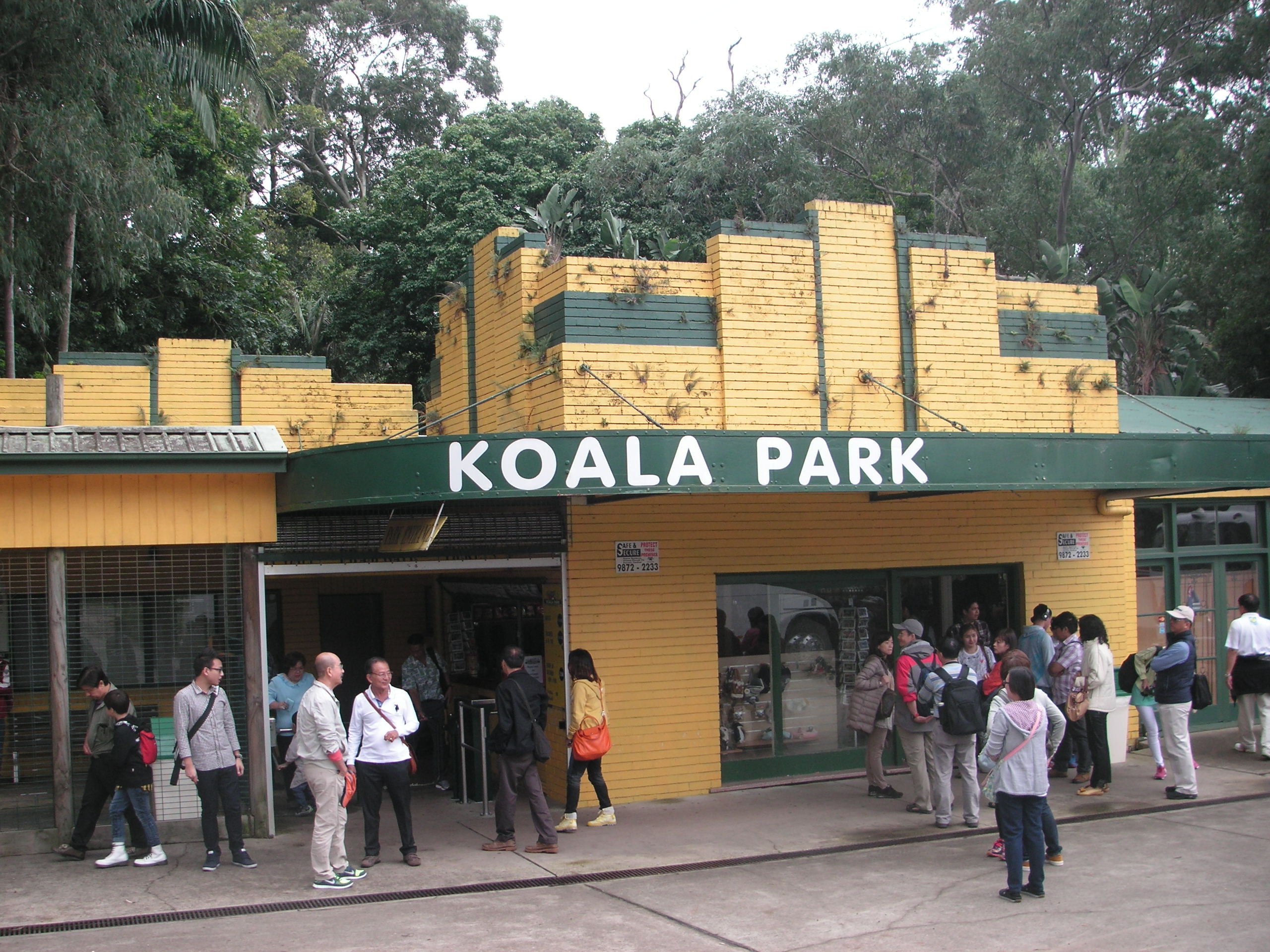 entry to Koala Park, West Pennant Hills NSW